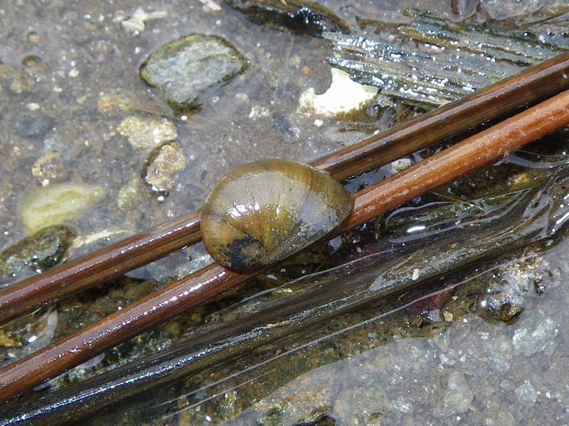 Neripteron sp. at Nagasaki